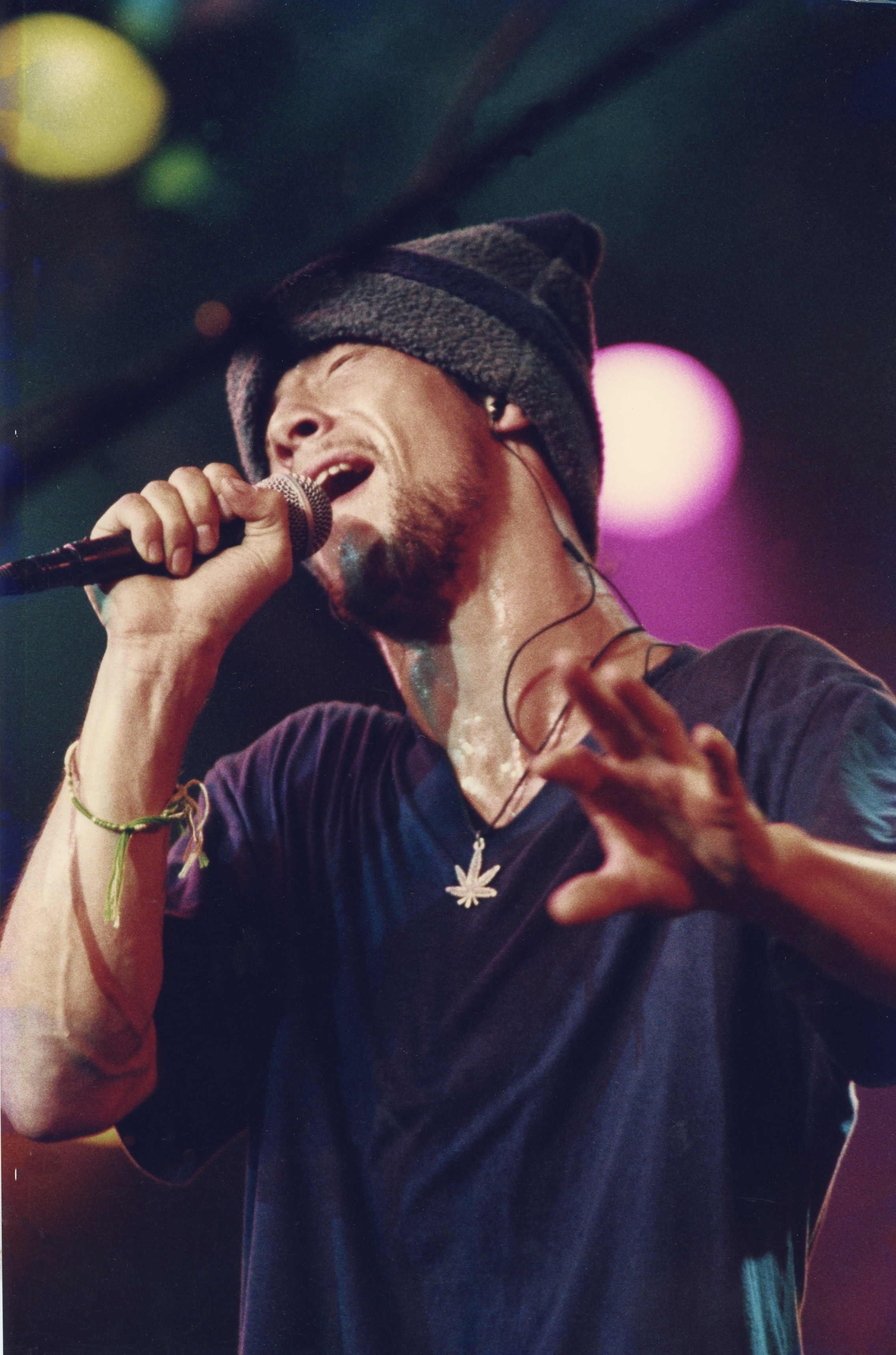 Jamiroquai in concert